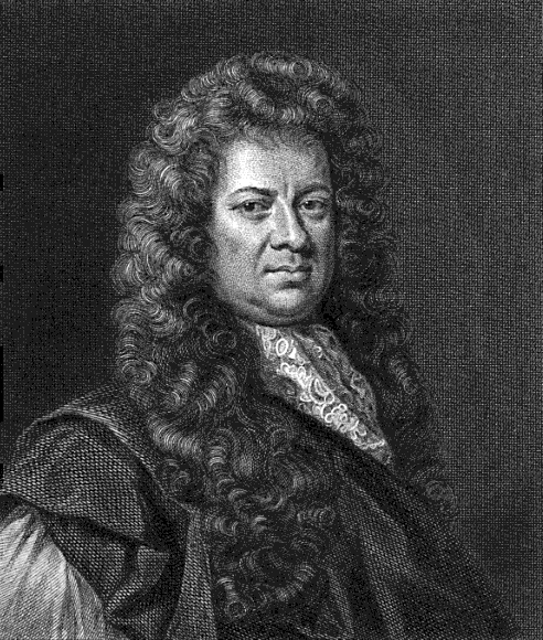 Portrait of Samuel Pepys, engraved for the second edition of the Rev. John Smith's 1825 edition of the diary